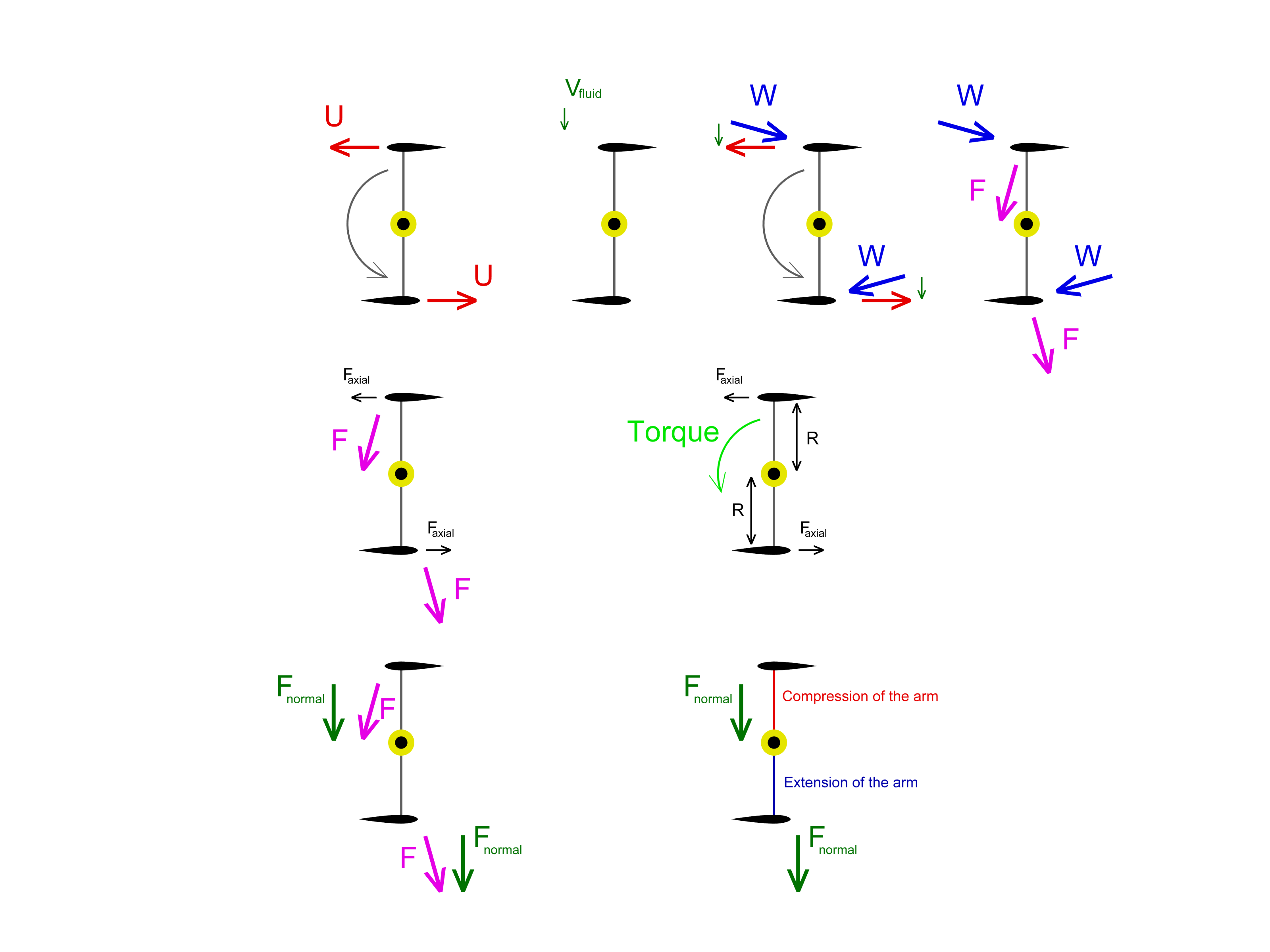 Torque and constraints on the arms